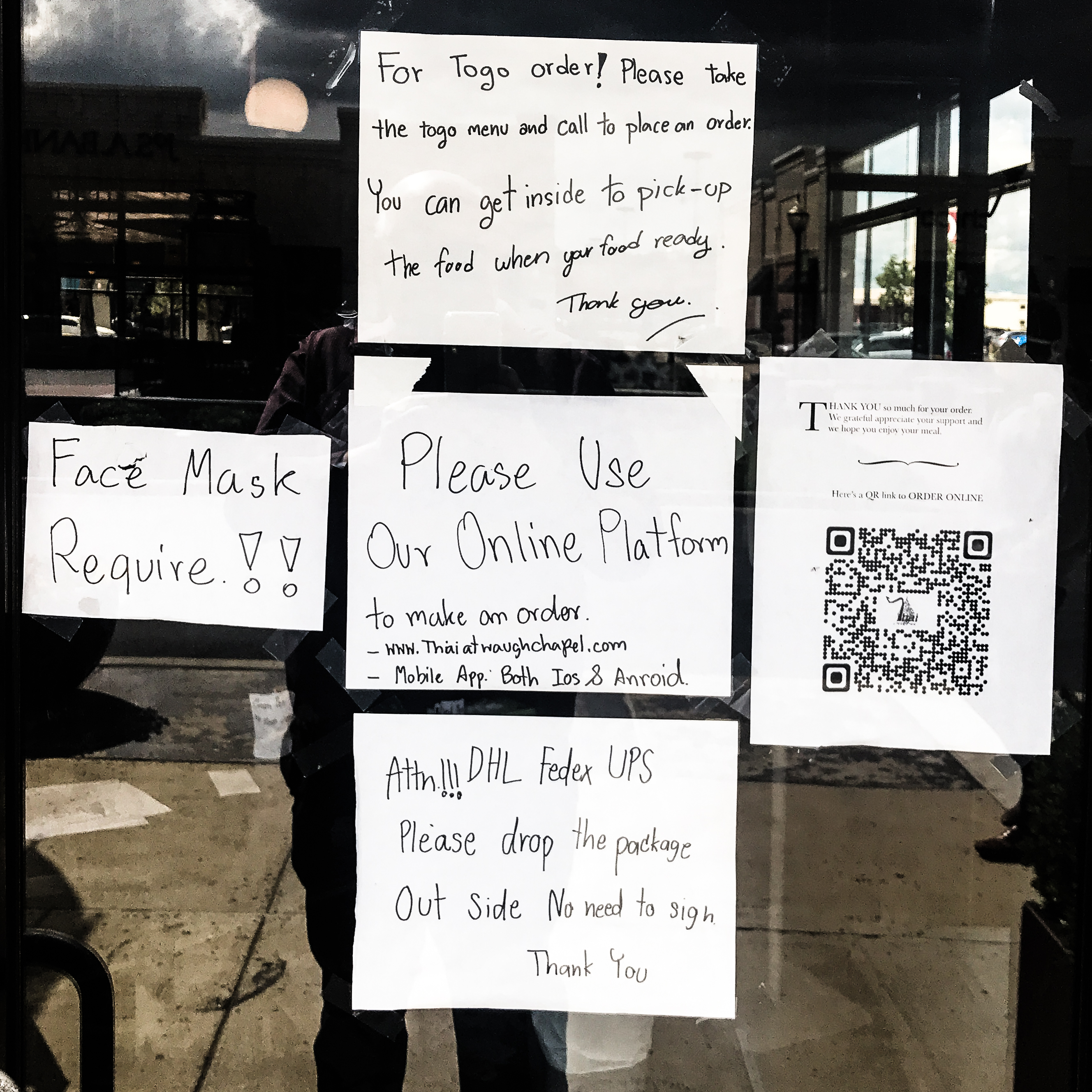 Thai at Waugh Chapel is a popular local dining spot. During the lock down in Maryland, it served only carry out food.